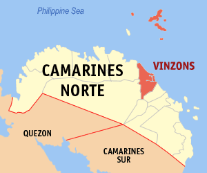 Map of Camarines Norte showing the location of Vinzons